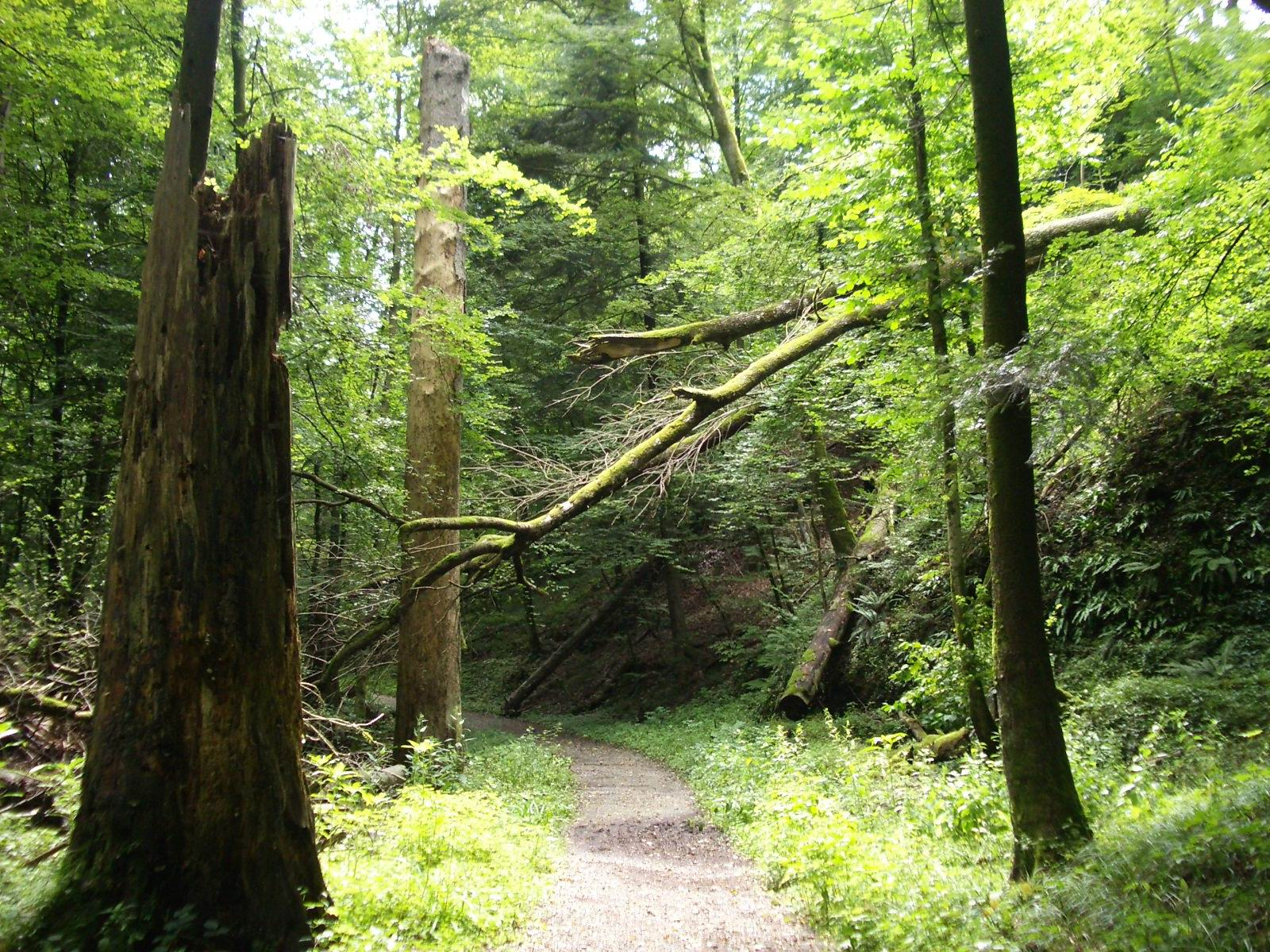 Baden AG, Switzerland